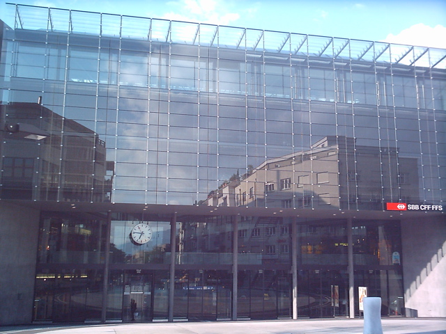 Zug New Railway Station. DF08 2004 image.